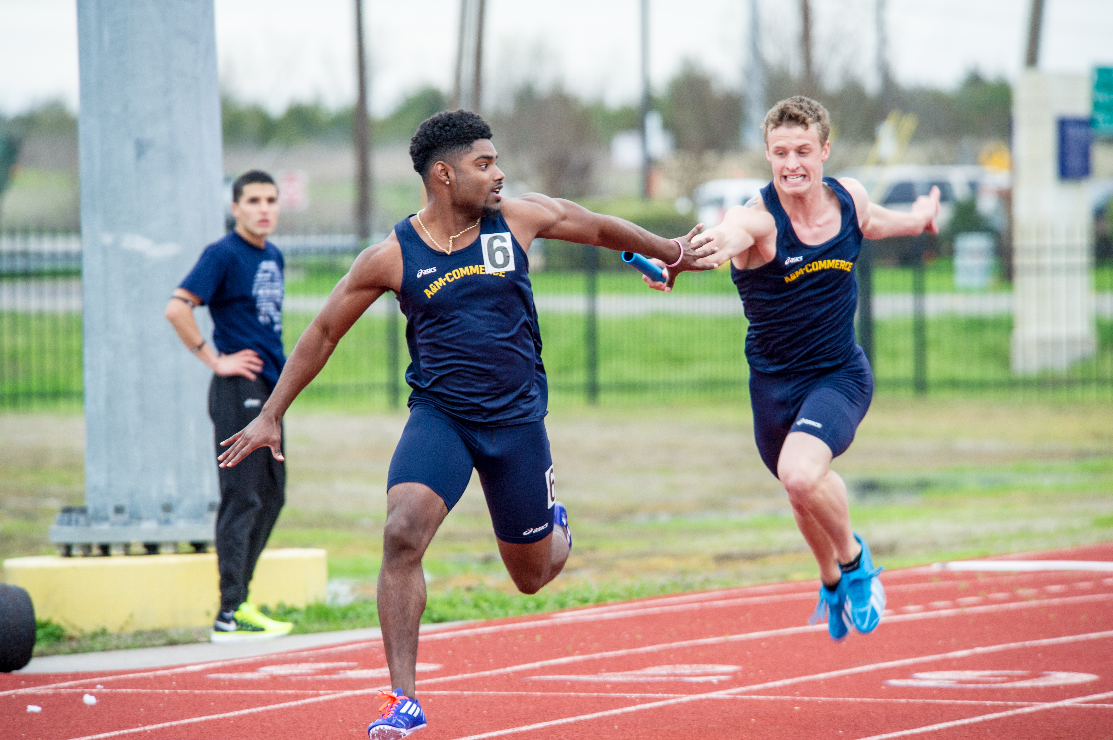 Athletics-Track-Tarleton Dual Meet-5605.jpg 2015 Texas A&M–Commerce Lions track and field team